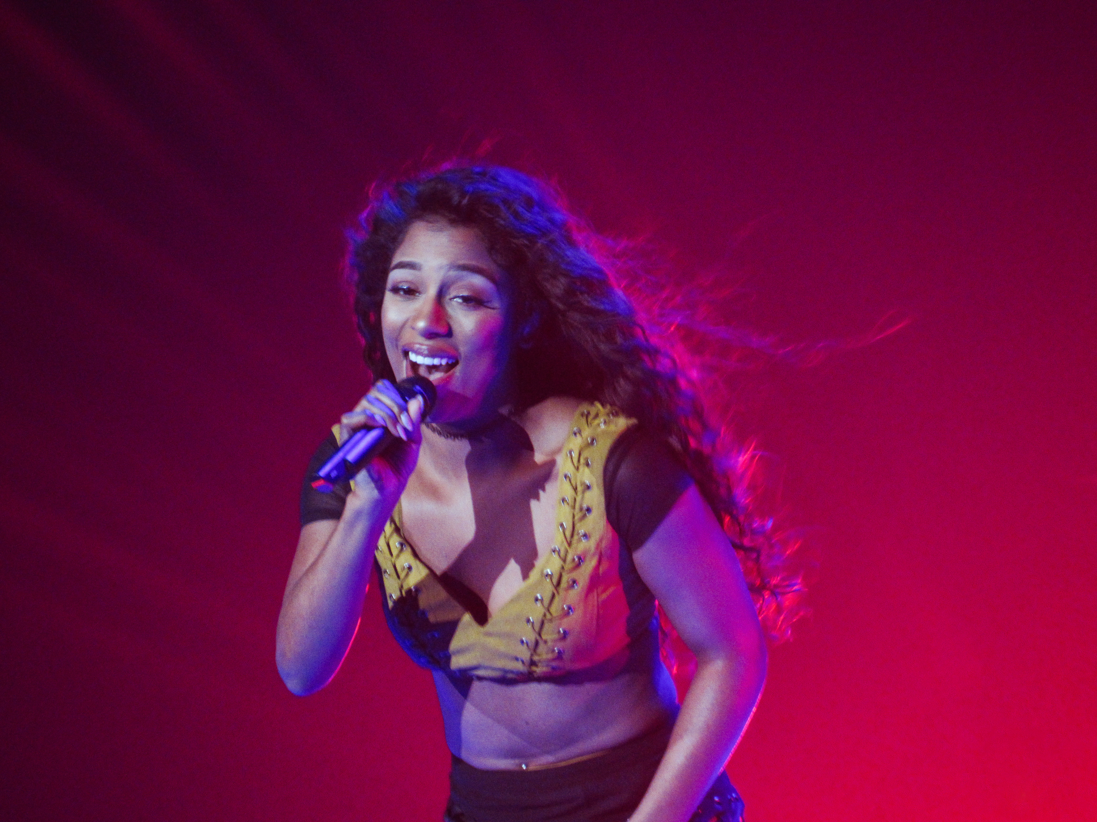 Dangerous Woman Tour 2/19/17 Ariana Grande performing during Dangerous Woman Tour in Manchester, New Hampshire, SNHU Arena, on February 19, 2017.